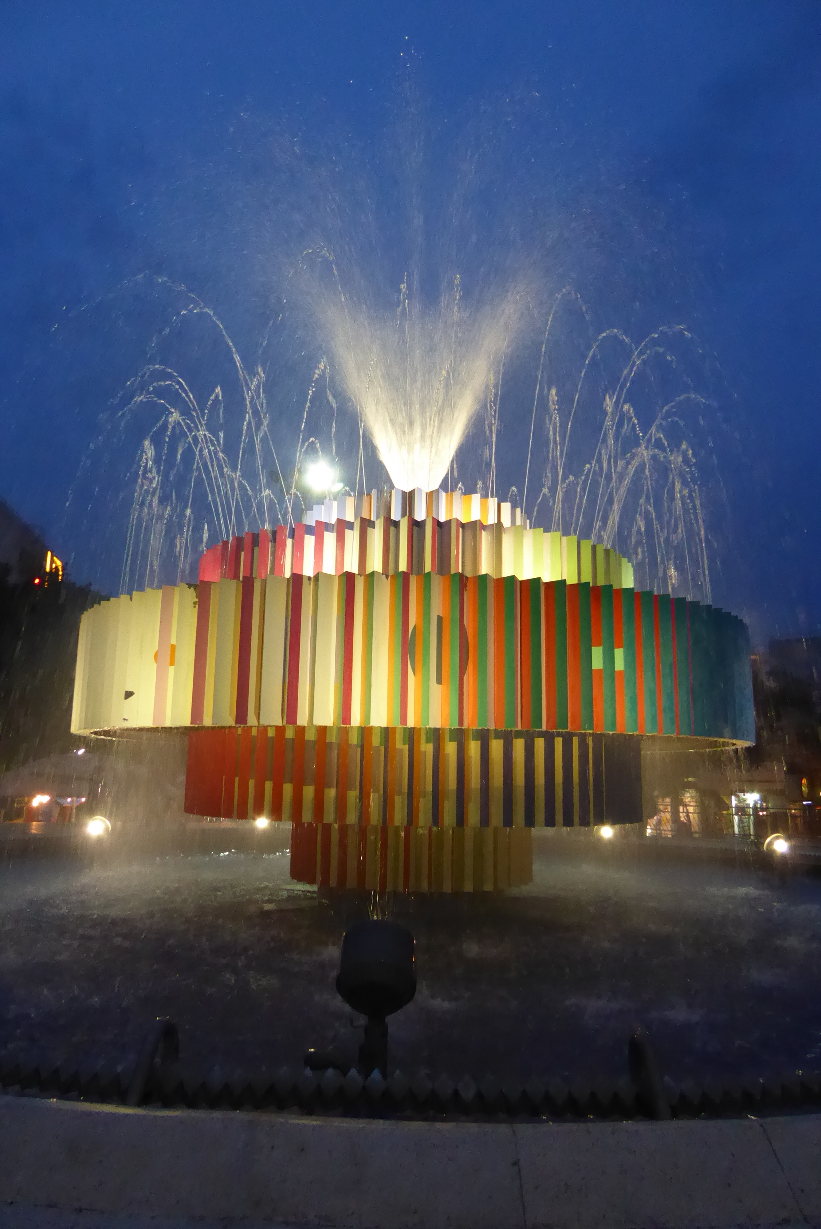 Dizengoff Square